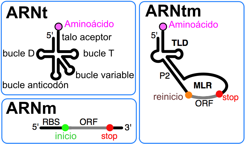 Comparison between tmRNA and tRNA and mRNA. Translated to Galician.